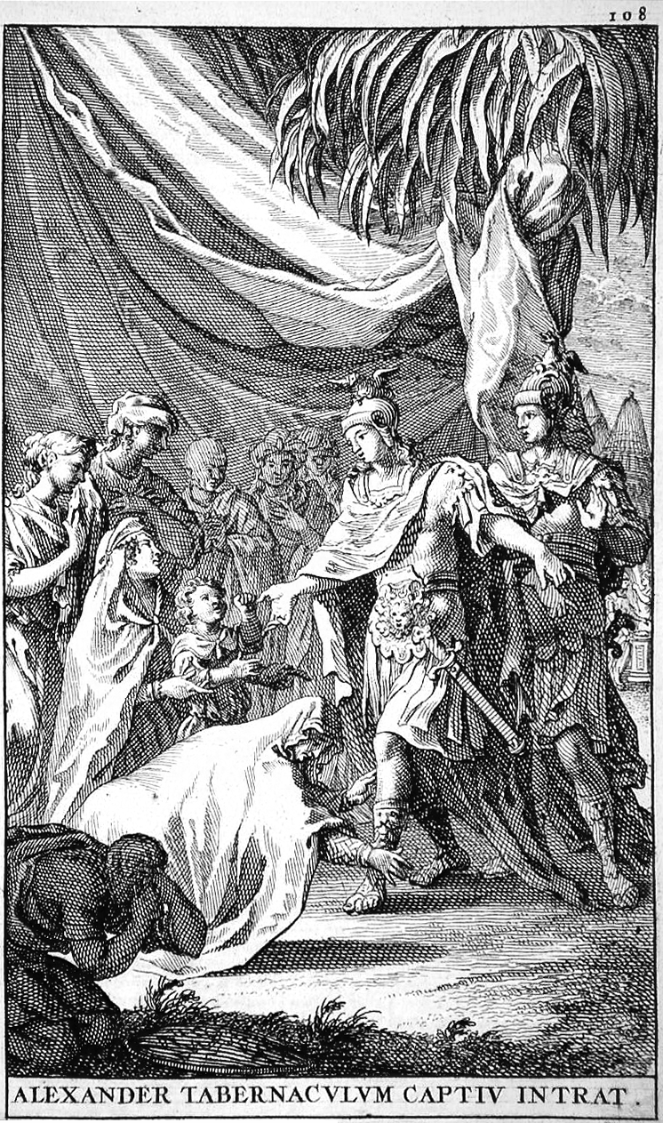 Alexander and Hephaistion enter within the tent of the captive royal family of Darius - the queens mistake Hephaistion for Alexander, but Alexander responds, He too is Alexander.